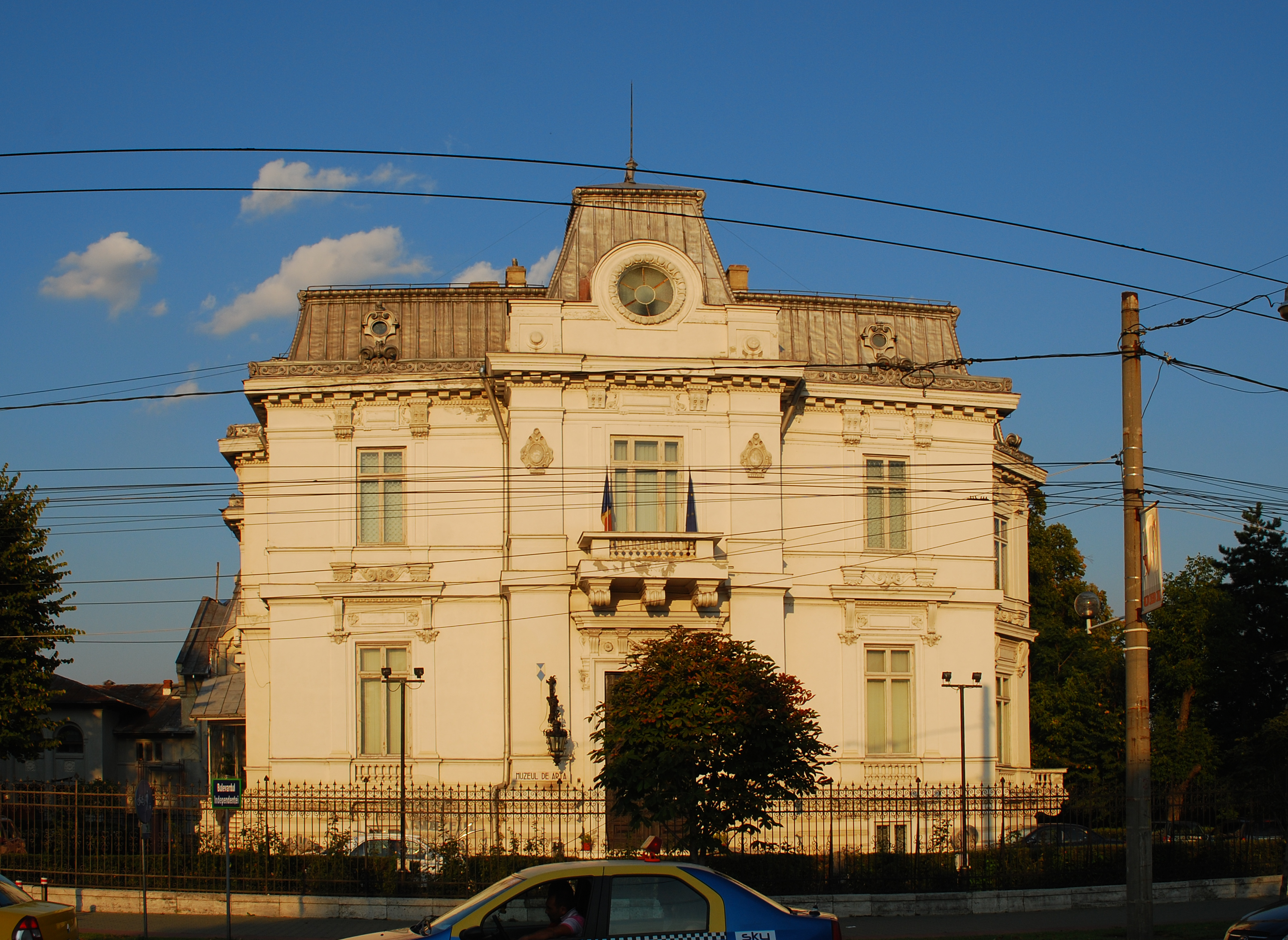 Ghiţă Ionescu house, the Ion Ionescu Quintus county art museum in Ploieşti, RomaniaRomână: Casa Ghiţă Ionescu, Muzeul Judeţean de Artă Ion Ionescu Quintus din Ploieşti, România